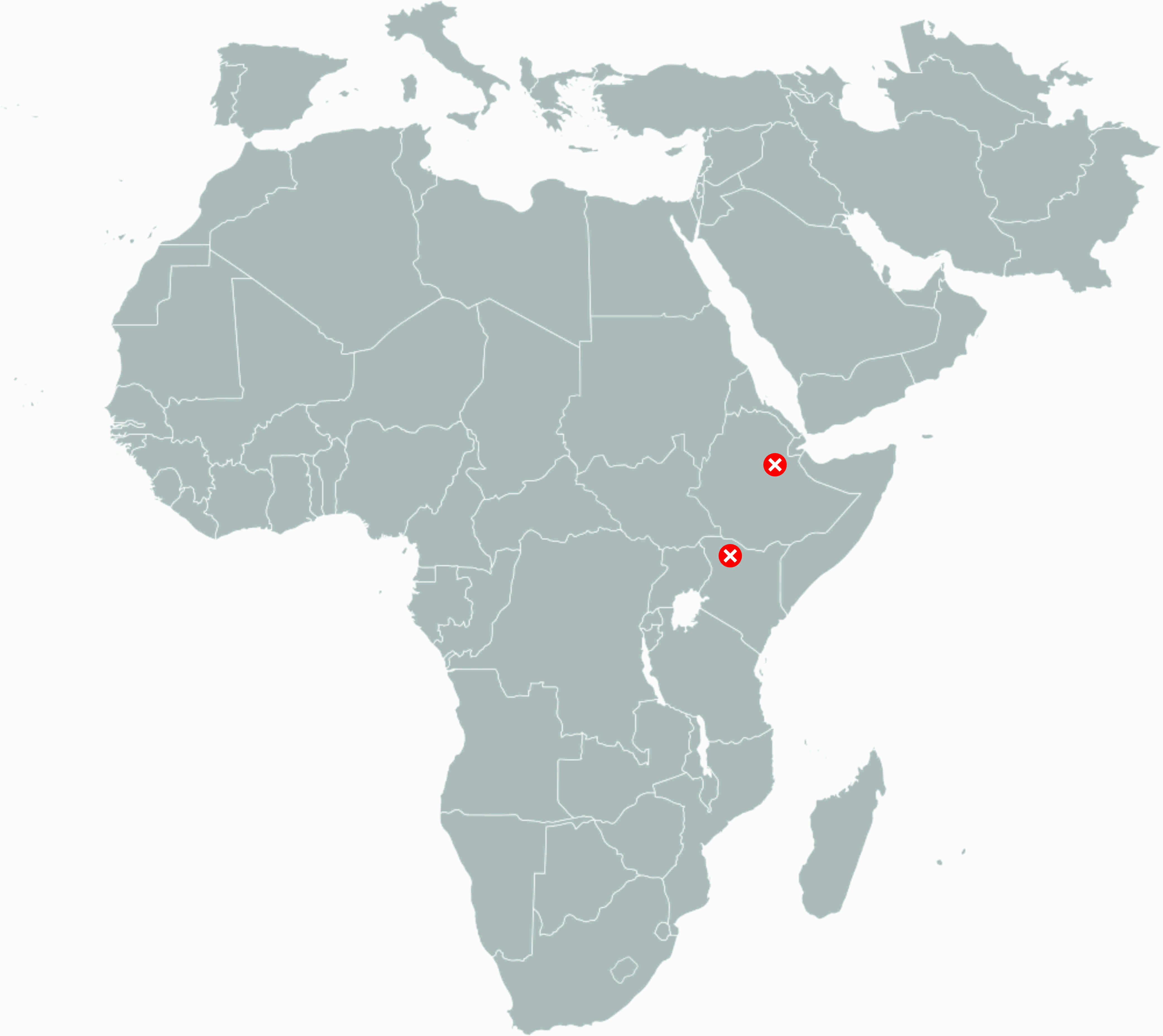 Australopithecus anamensis paleoanthropological sites in Kenya and Ethiopia (Kanapoi, Allia Bay, Asa Issie)